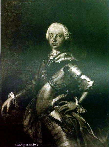 Portrait of Charles August of Baden-Durlach (1712-1786)